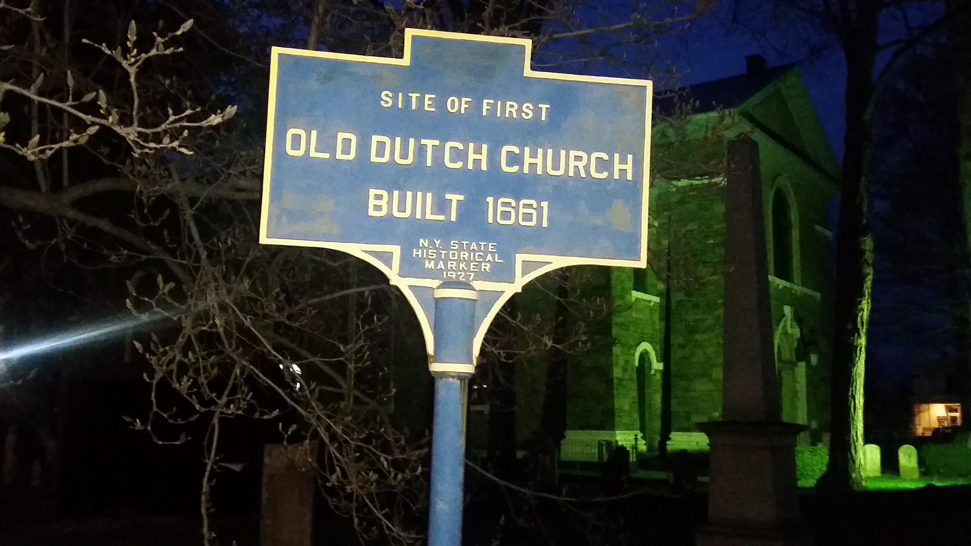 The New York State historical marker in front of the Old Dutch Church in Kingston, NY